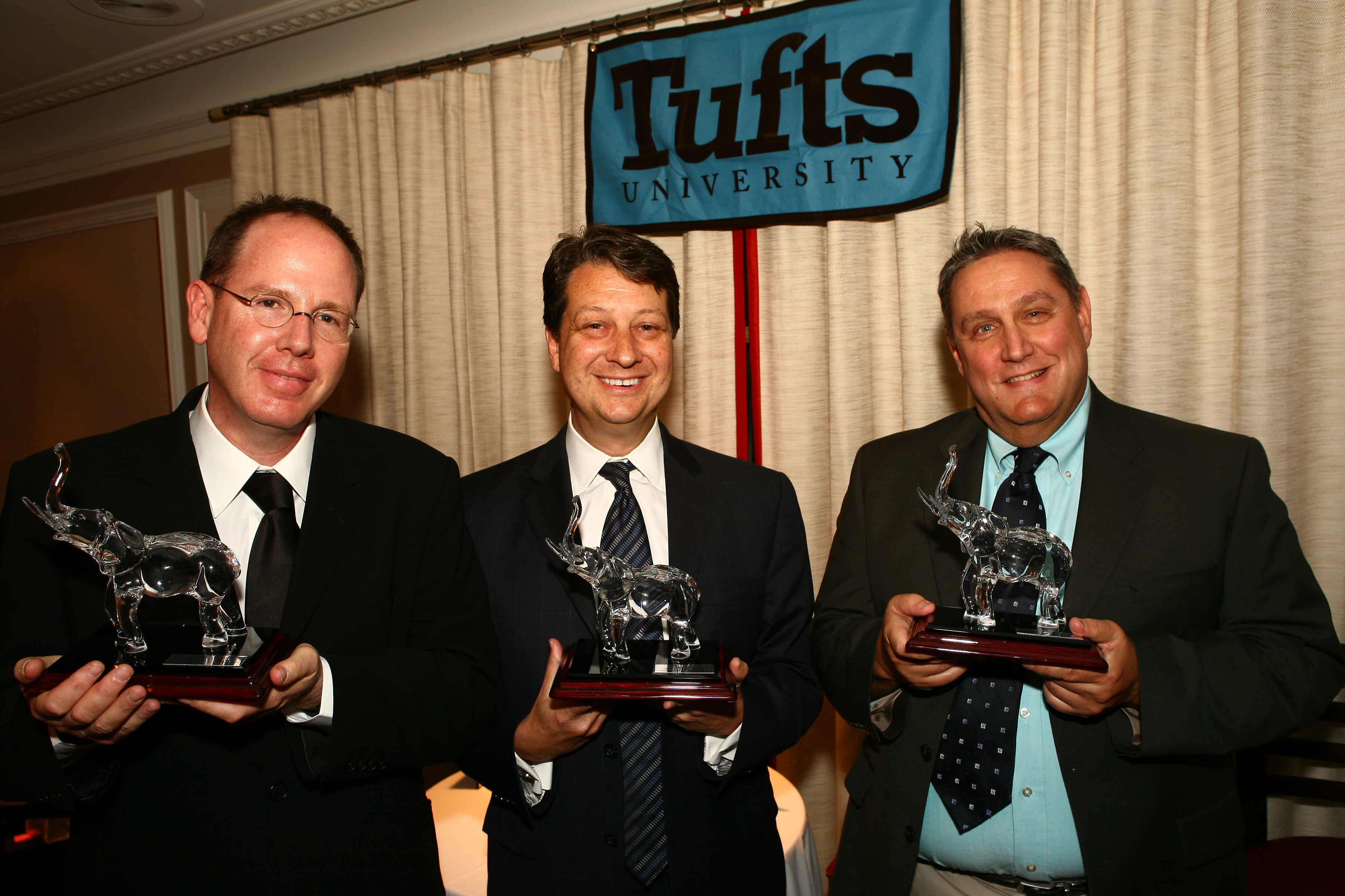 Jim Nicola, Albert Berger, Neal Shapiro- P.T. Barnum awards 2008 winners